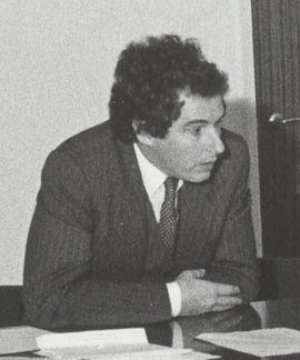 William Waldegrave, then Under-Secretary of State for Education, visiting the University of Salford in 1981 From the University Archives and Special Collections.